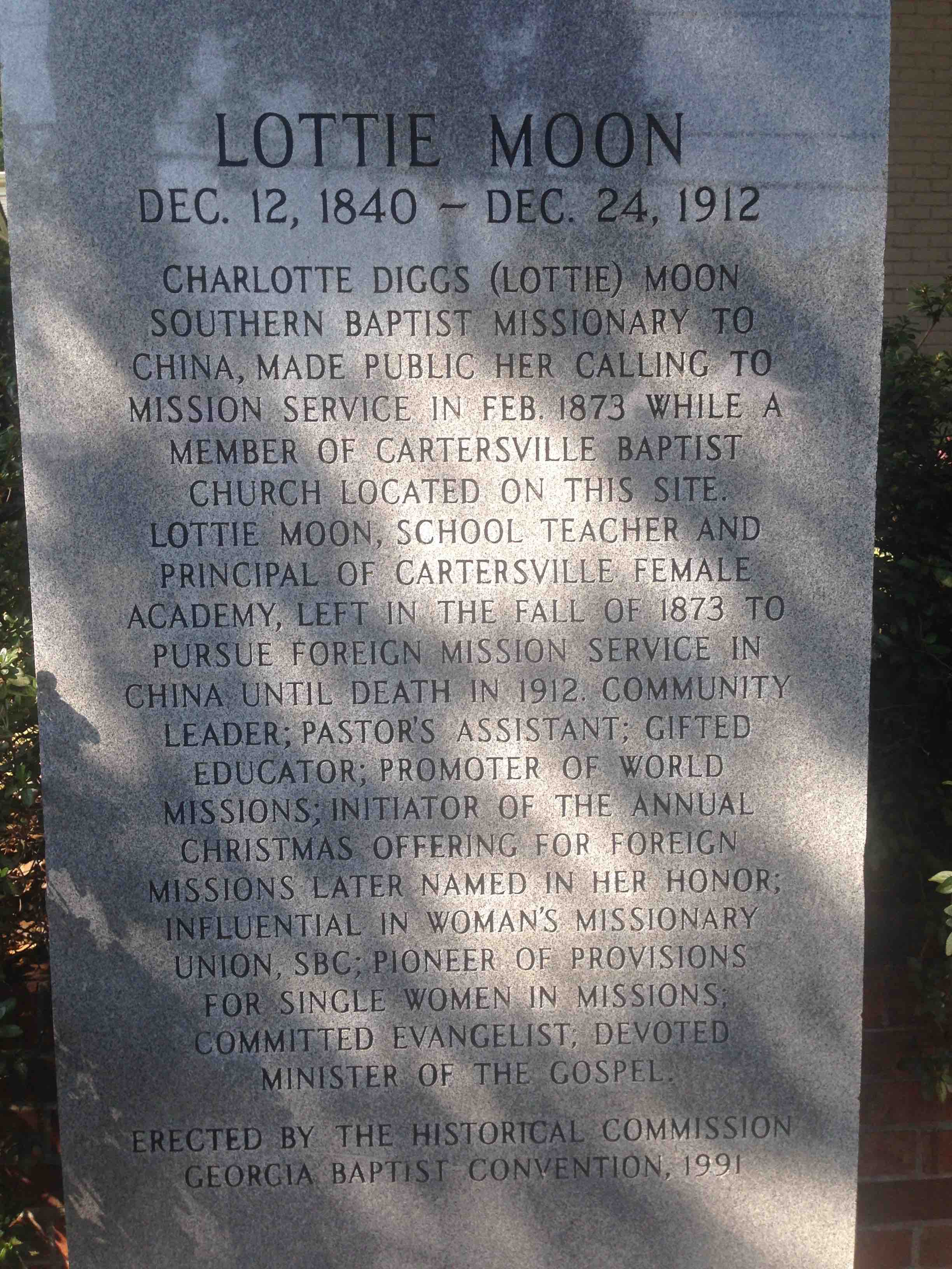 A monument to Lottie Moon, American Baptist missionary to China, on West Cherokee Street in Cartersville, Georgia.